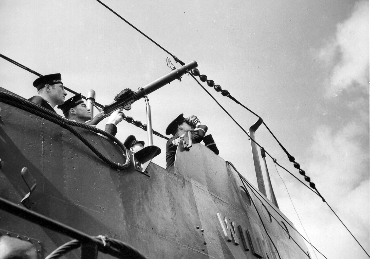 Polish Submarine ORP Wilk in Great Britain